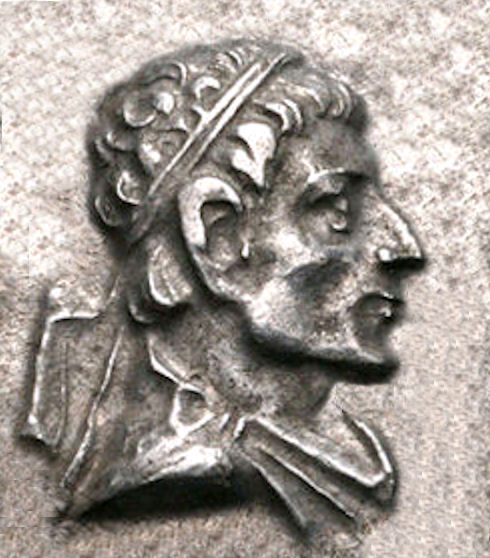 Heliokles II portrait